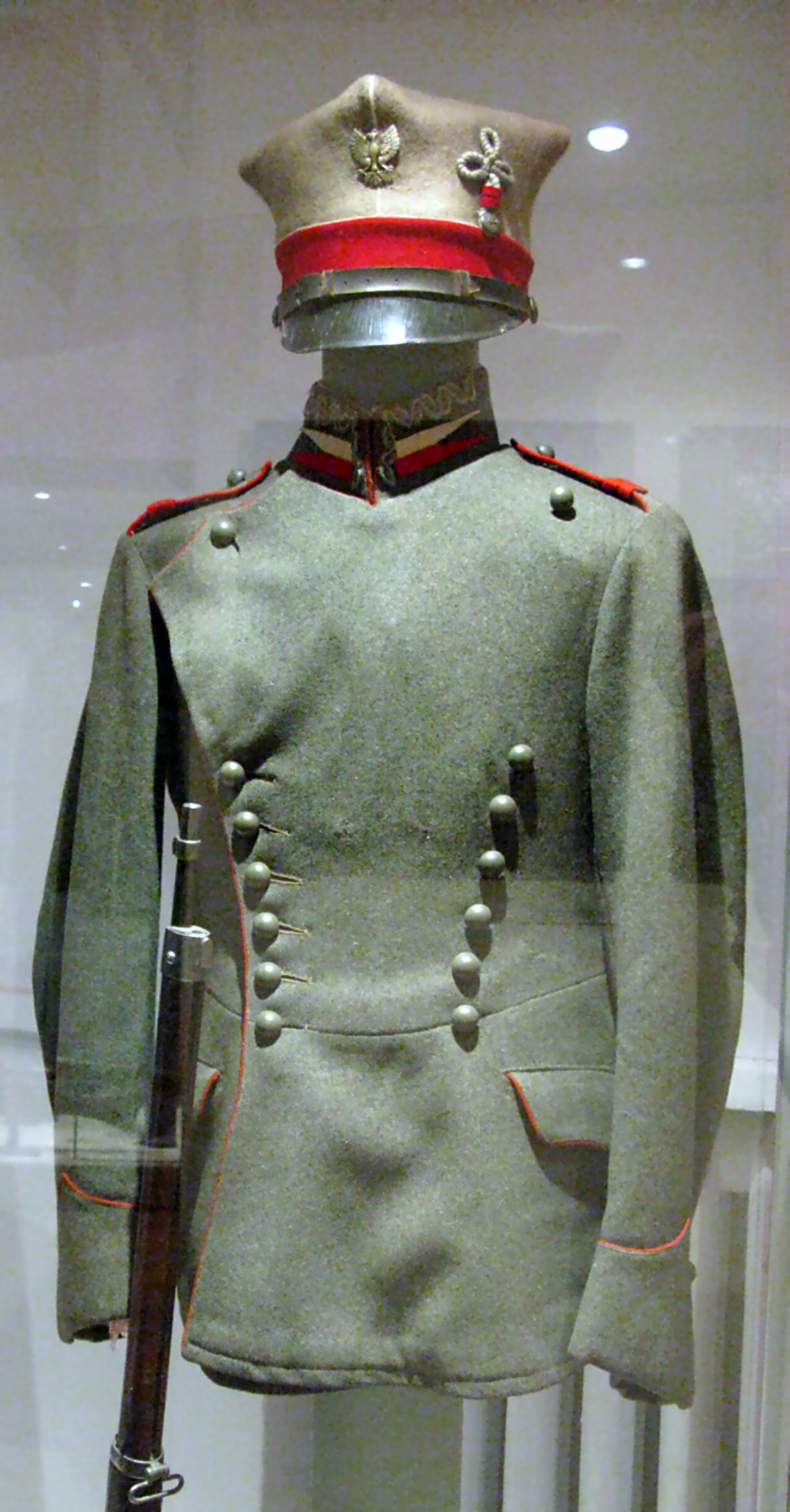 Uniform of the 1st Wielkopolska Uhlan Regiment